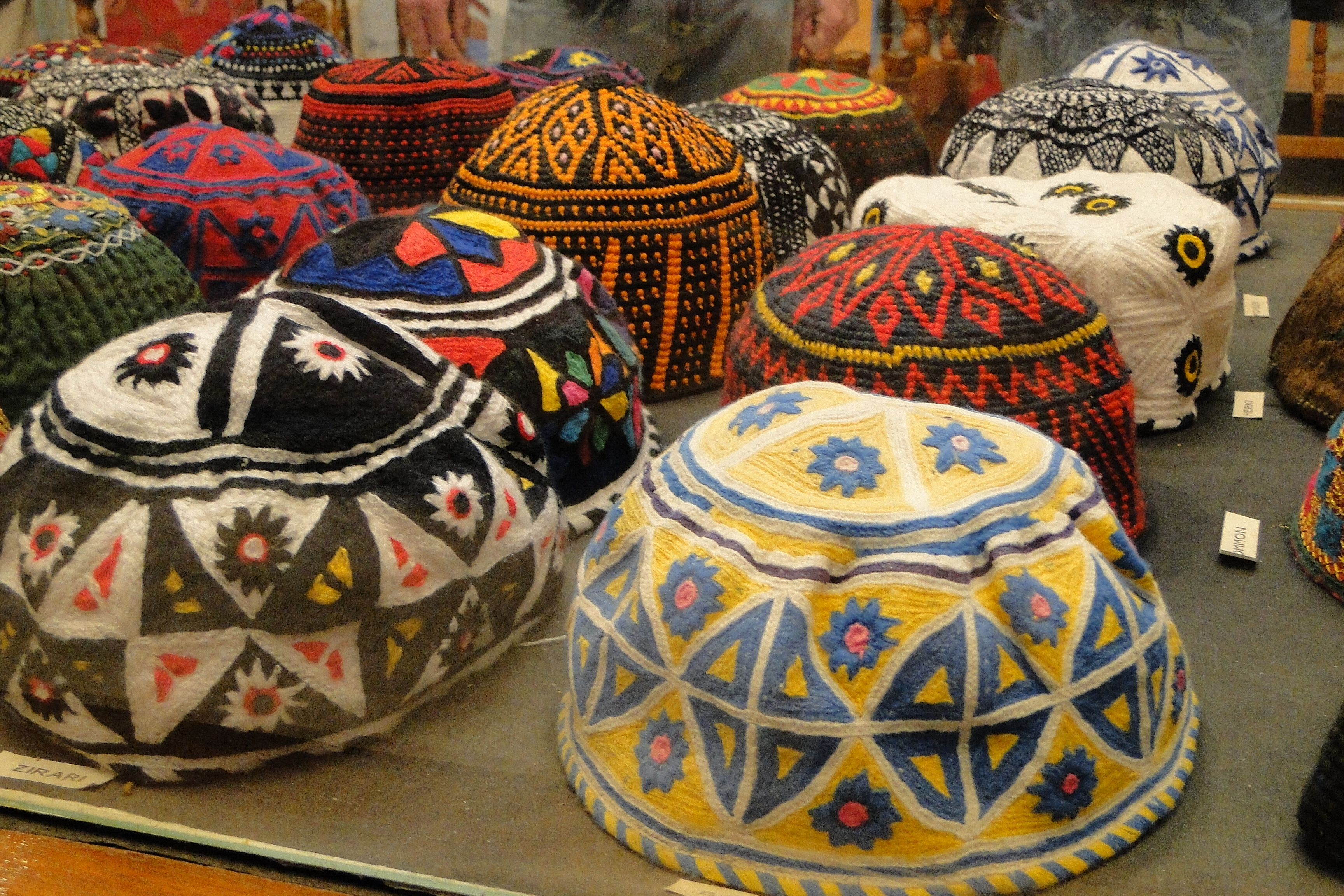 Kurdish Tribal Caps - Kurdish Textile Museum - Erbil - Iraq